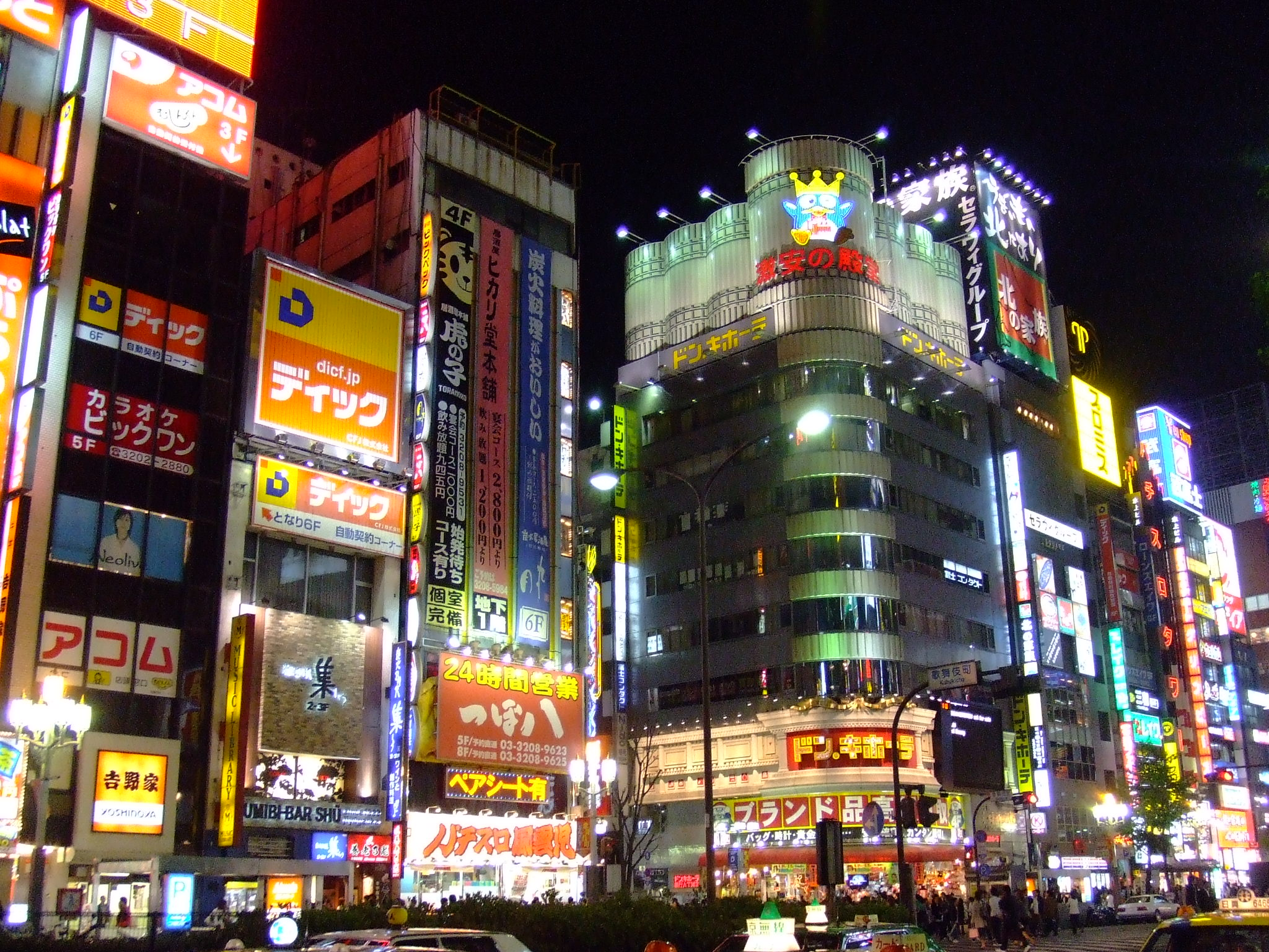 I forgot which part of Shinjuku this is. But it sure looks awesome. Made to explorer Apr 30, 2006 #499